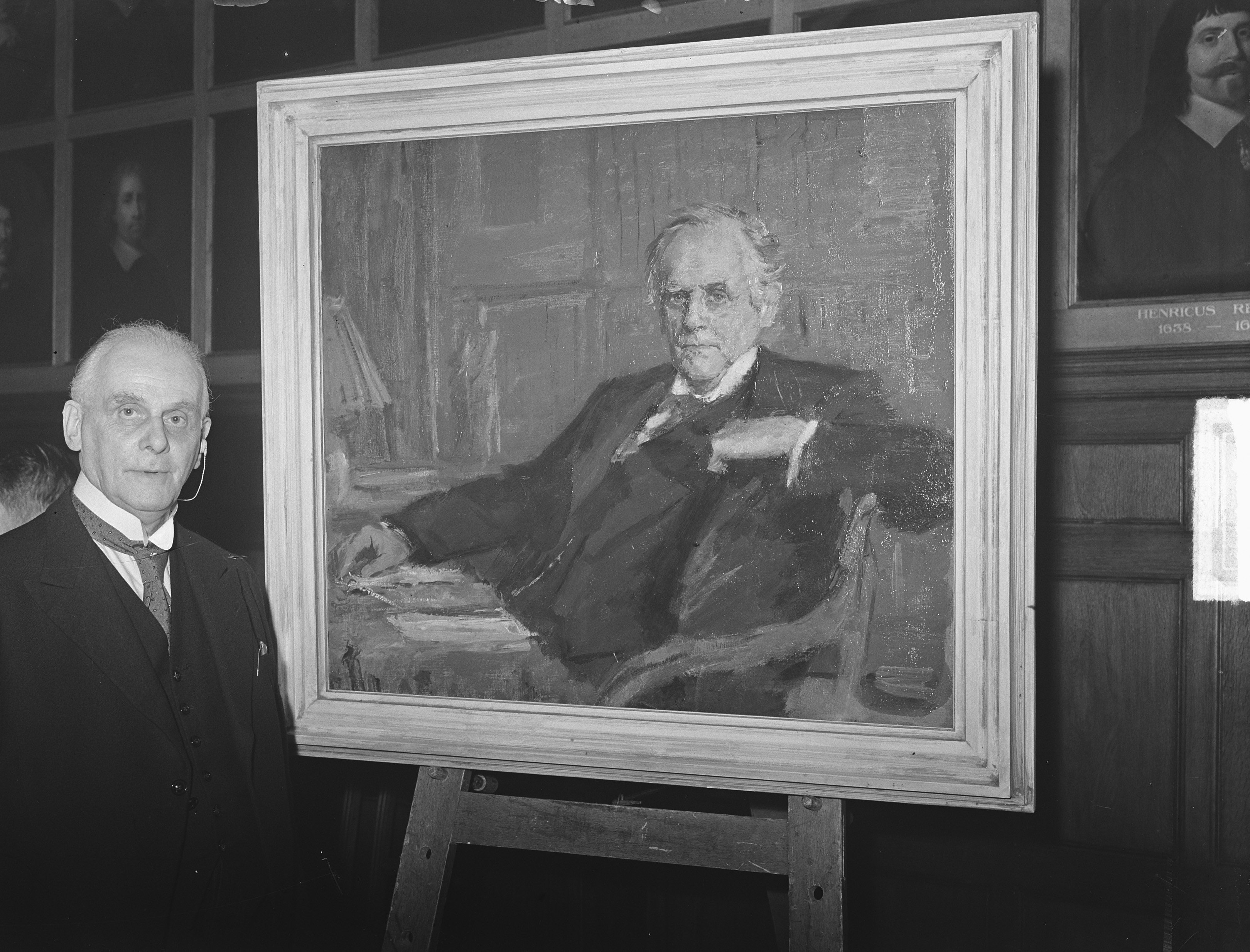 Professor Carel Gerretson (Geerten Gossaert) 25 years professor at Utrecht University (the Netherlands). Gerretson left (with hearing aid) and his portrait by Sierk Schröder